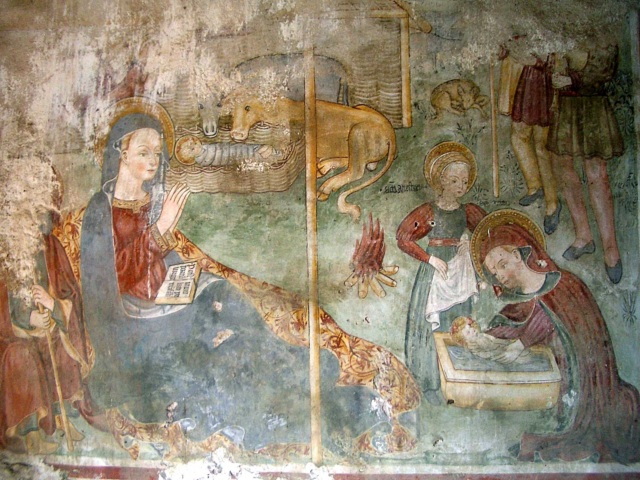 Giovanni de Campo, Nativity, fresco, XV century, Caltignaga, Chiesa dei Santi Nazzaro e Celso (Sologno)